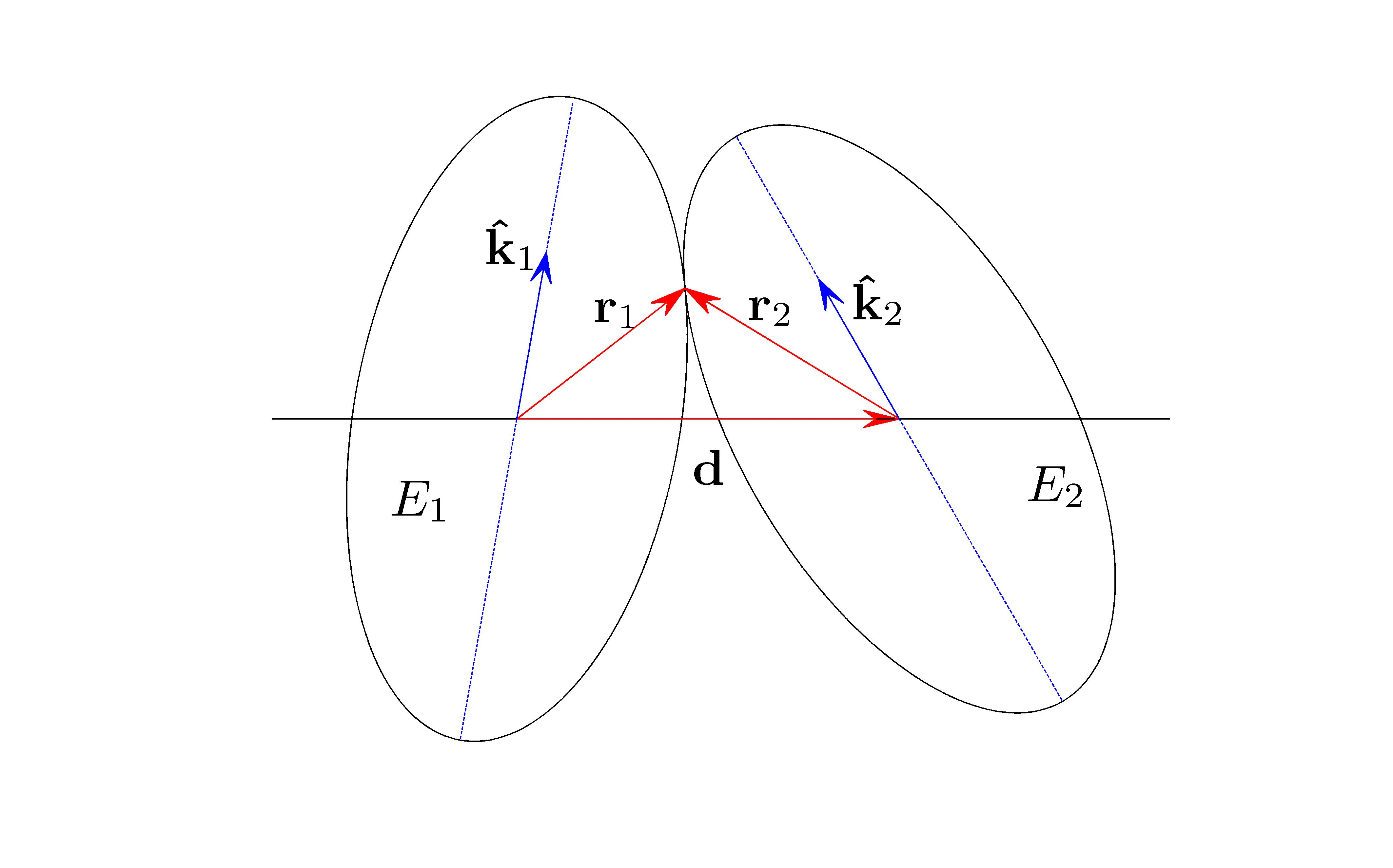 Two externally tangent ellipses